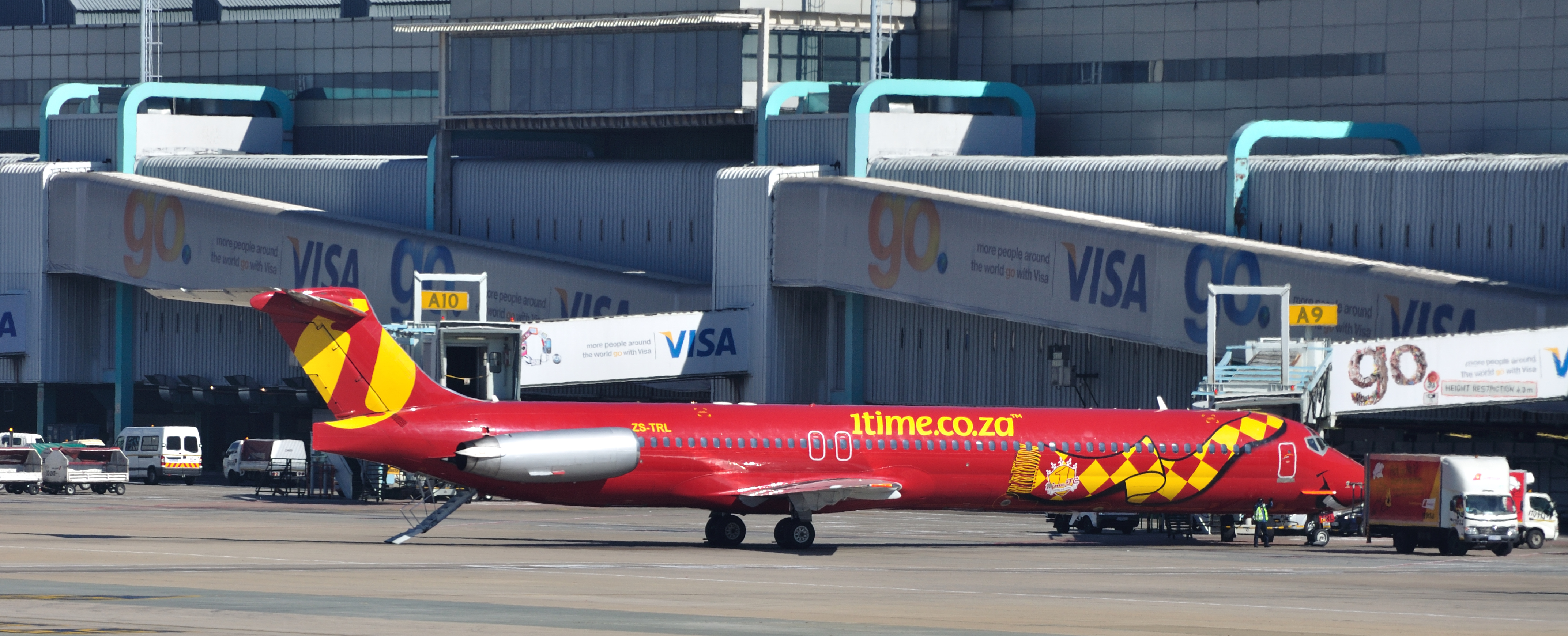 1time Airline McDonnell Douglas MD-83 (ZS-TRL) South Africa, spotting at OR Tambo International Airport